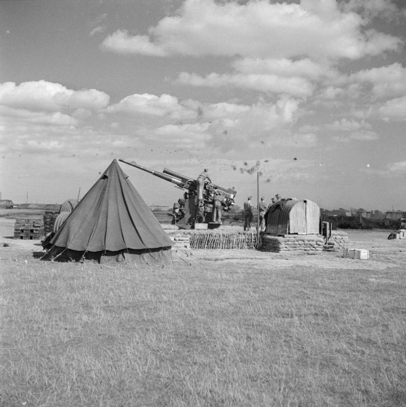 The British Army in the United Kingdom 1939-45 3.7-inch gun battery in action near London, 29 August 1944.